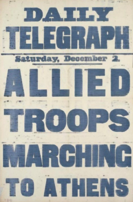 Placard for The Daily Telegraph : "Allied Troops Marching To Athens" NOTE : See Noemvriana.